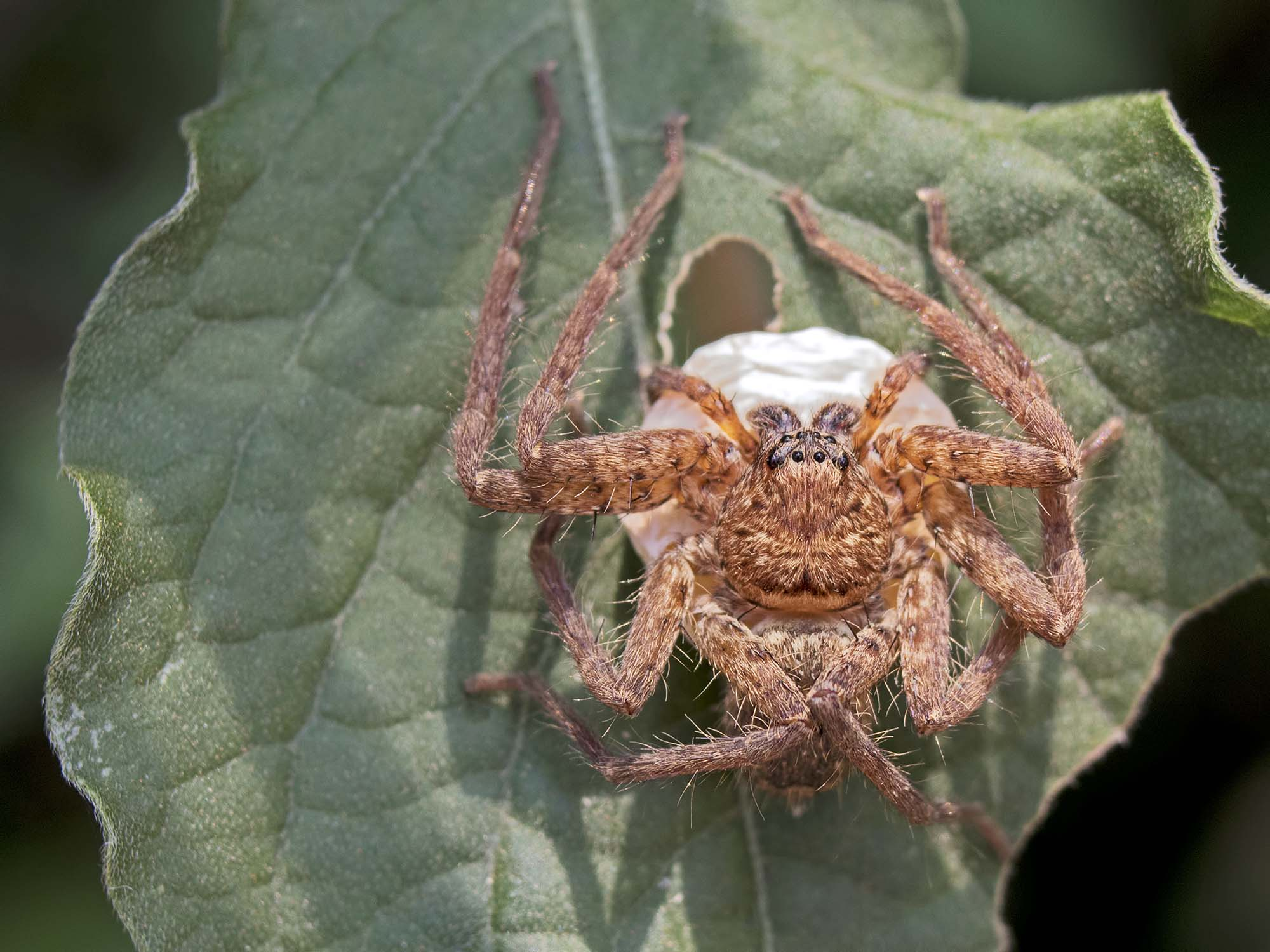 Heteropoda cf. venatoria, Family: Sparassidae Heteropoda venatoria is a species of spider in the family Sparassidae, the huntsman spiders. It is native to the tropical regions of the world, and it is present in some subtropical areas as an introduced species. Its common names include giant crab spider and cane spider The spider feeds on insects, capturing them directly instead of spinning webs. It injects them with venom. In some tropical areas the spider is considered a useful resident of households because of its efficient consumption of pest insects. It commonly lives in houses and other structures such as barns and sheds, especially in areas that experience cold temperatures. It is sensitive to cold and can live outdoors only in warmer climates. Besides insects it has been known to prey on scorpions and bats. The spider is not considered dangerous, but it does deliver enough venom to give a painful bite